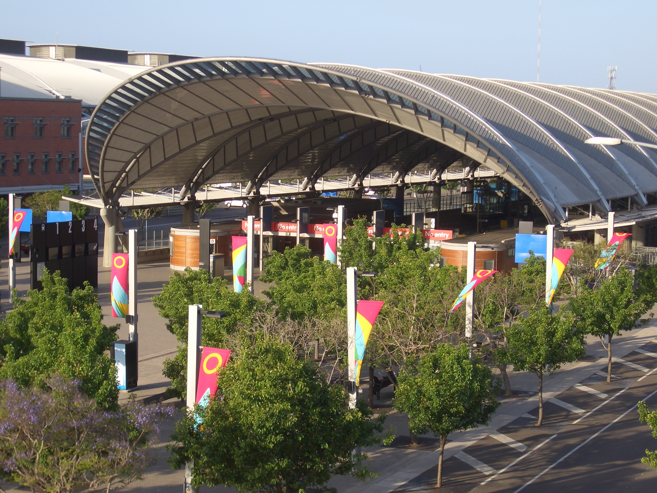 Sydney Olympic Park railway station